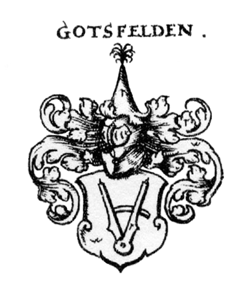 Coat of arms of Gotsfelden